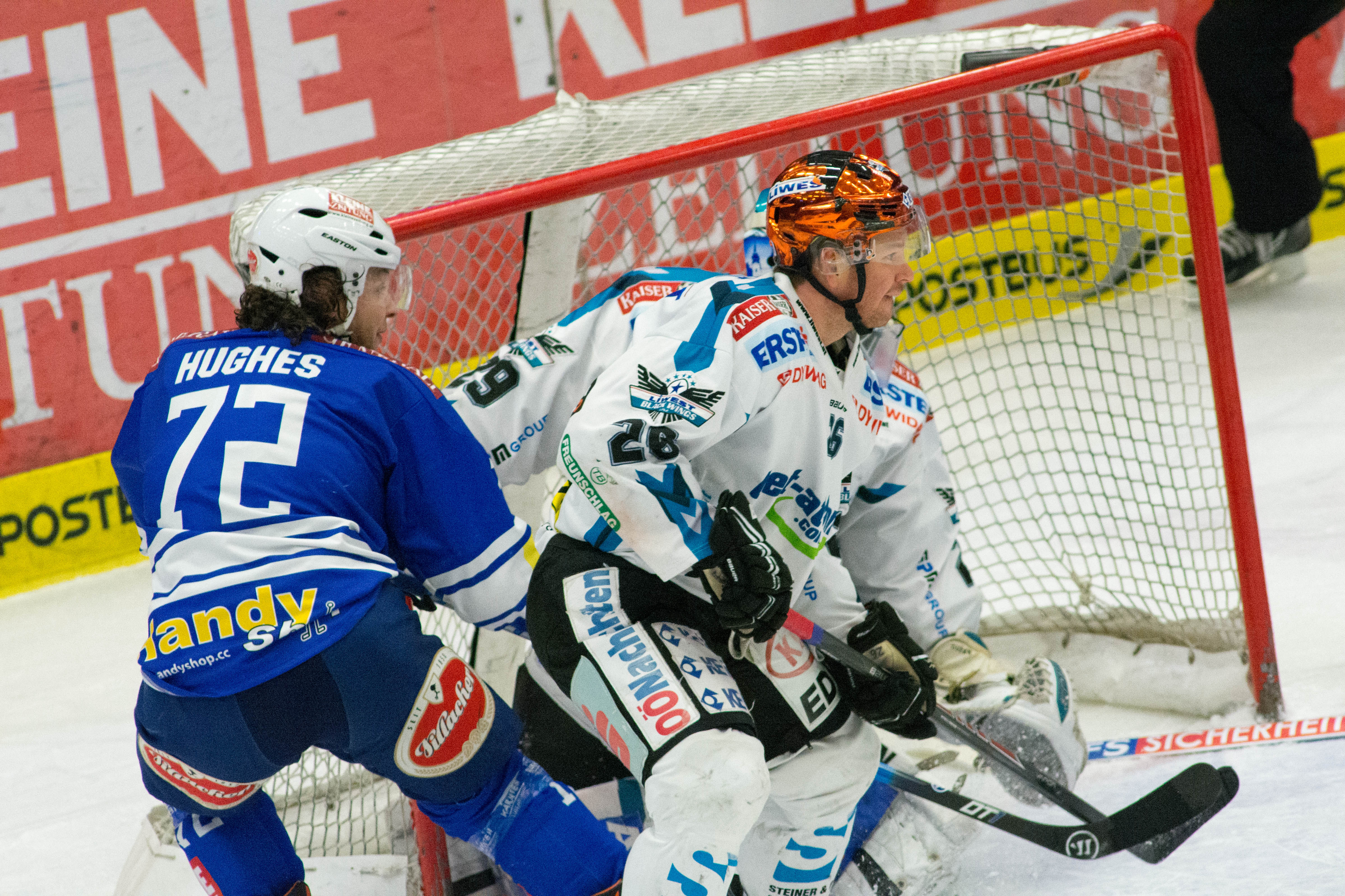 John Hughes and Rob Hisey, 24.11.2013,Stadthalle Villach, AUT, EBEL, 40. Runde, EC VSV vs. EHC Liwest Black Wings Linz, im Bild // frostworx Pictures © 2013, PhotoCredit: frostworx / Alex Micheu